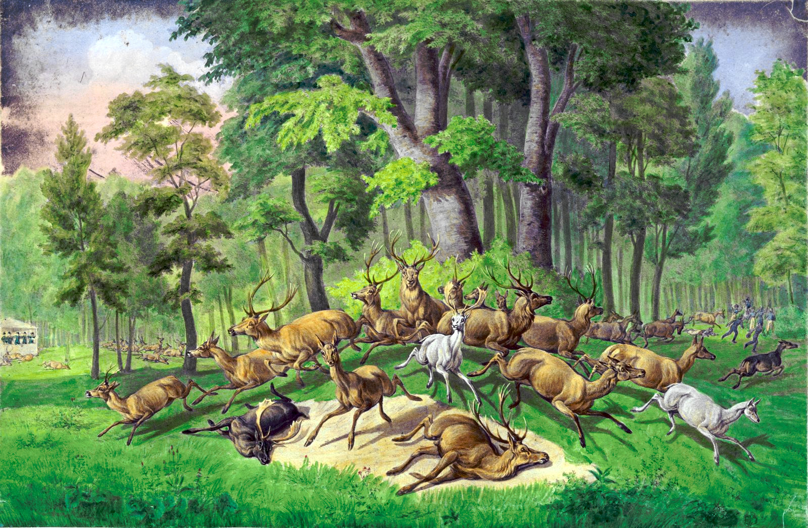 This is one of the draws from the Hungarian Count Leó Festetics' 1870 book of the South- West Hungarian great big game driven hunts of noble Esterházy family on Gyulaj and Ozora estates, Hungary